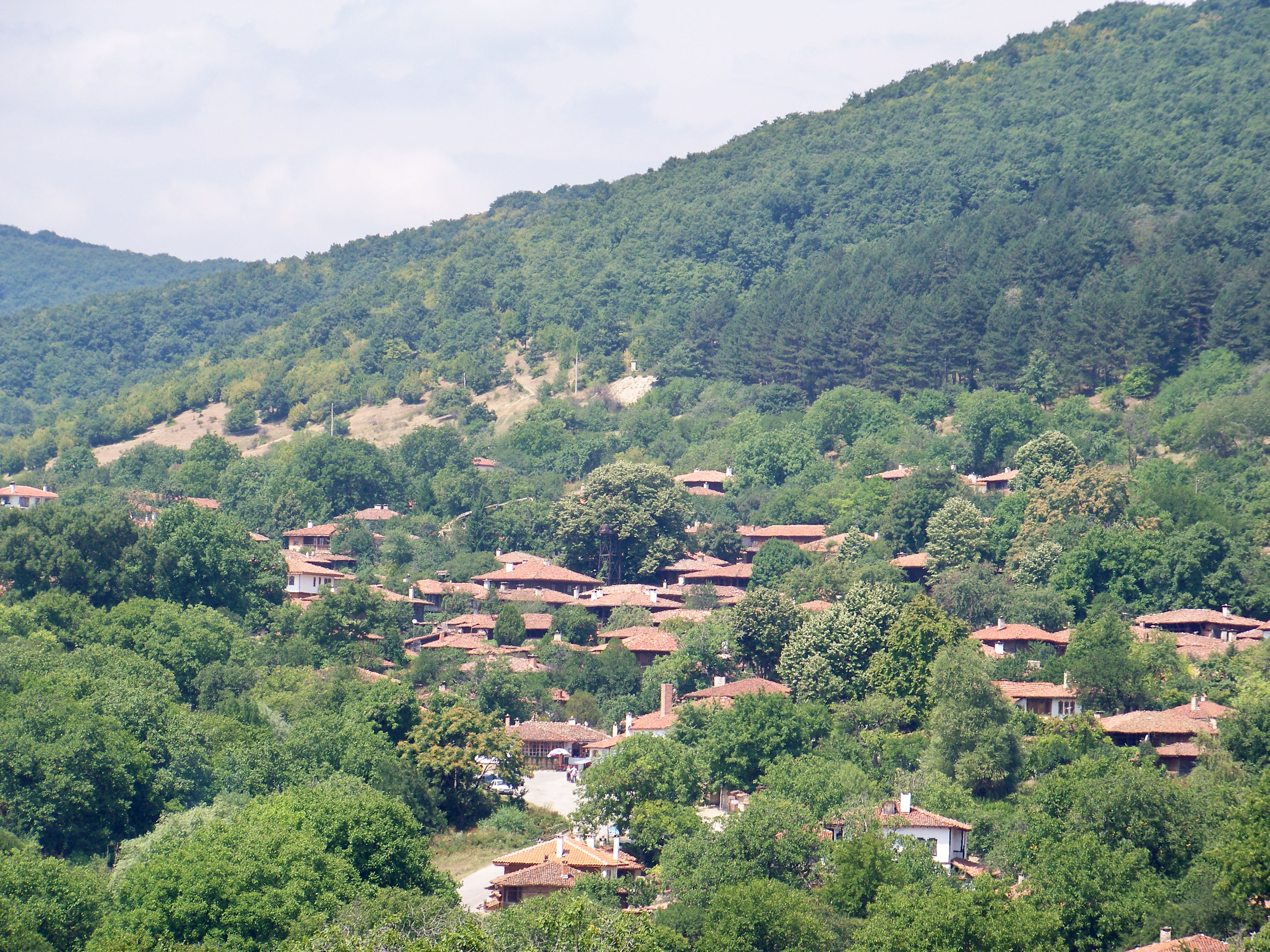 Zheravna